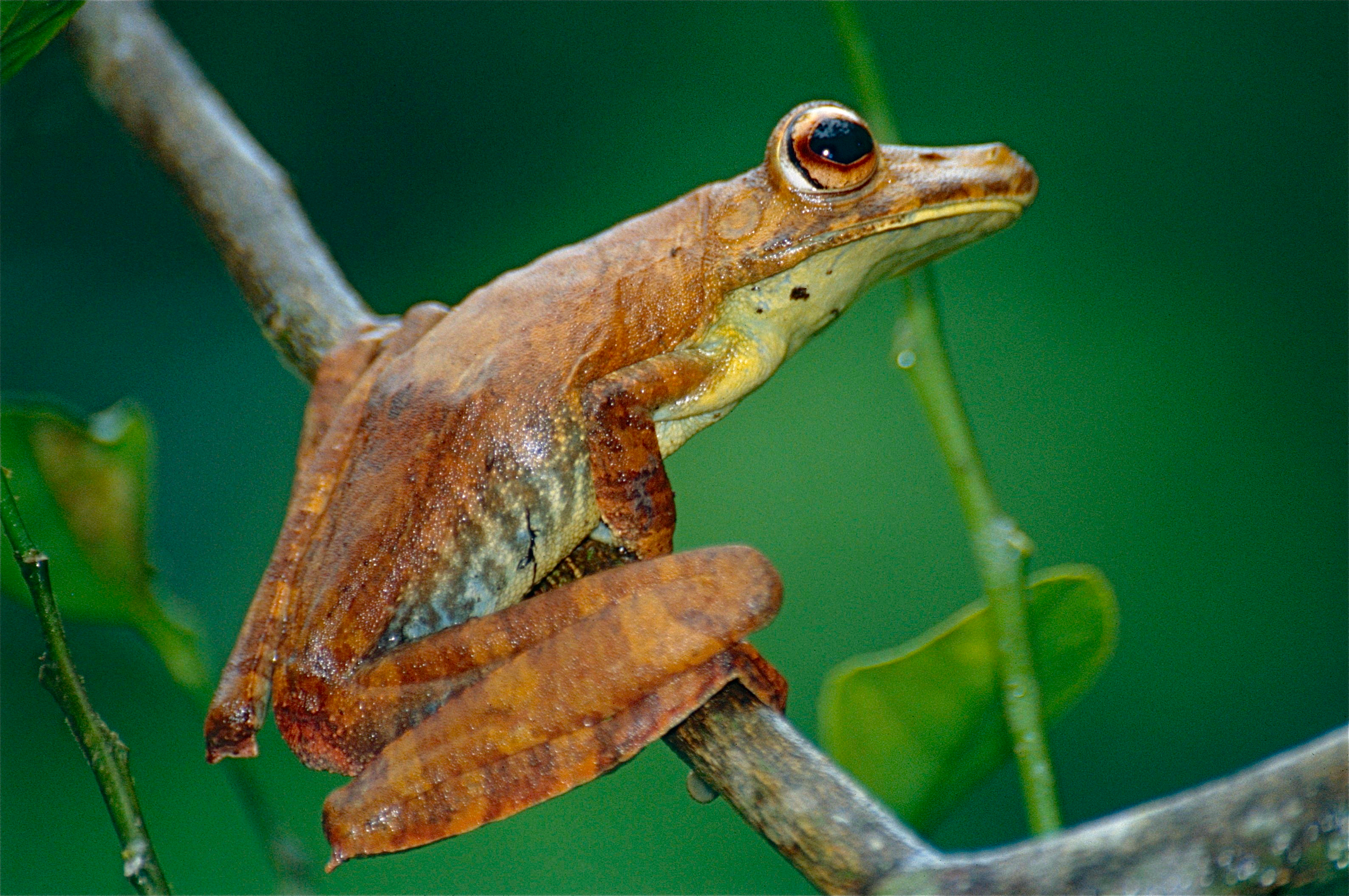 Route de Regina, Guyane, FRANCE Scanned Slide from 2000